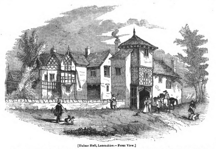 An etching by T. F. Marshall of Hulme Hall, Hulme, Manchester, shortly before it was demolished, ca. 1840.